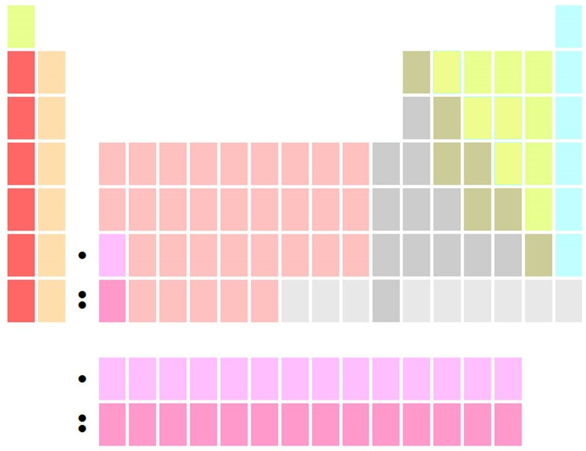 Periodic table with group 3 being defined as Sc-Y-Lu-Lr. Color scheme for categories following enwiki as of today.